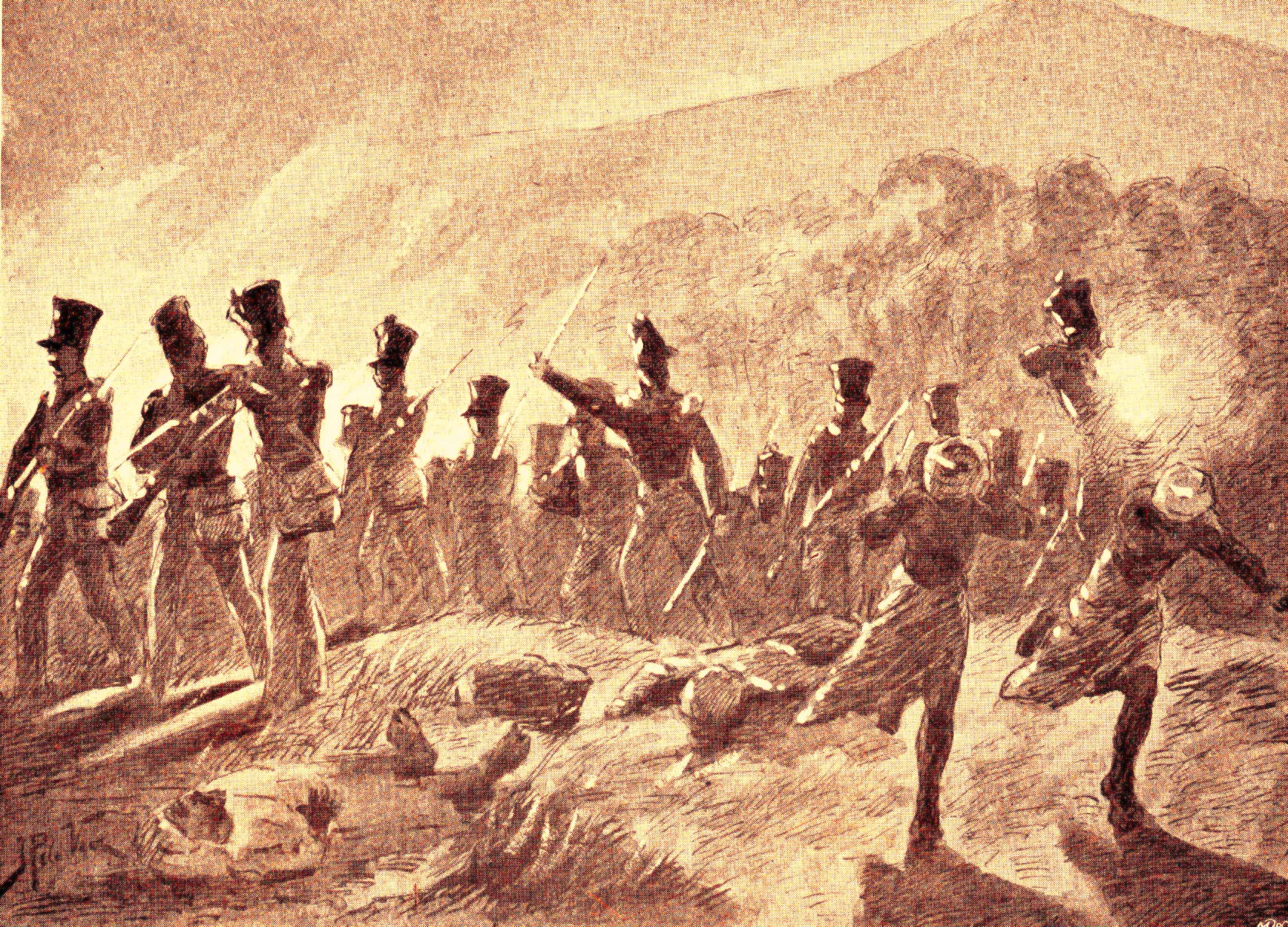 Aftocht van de bezetting van Amerongen